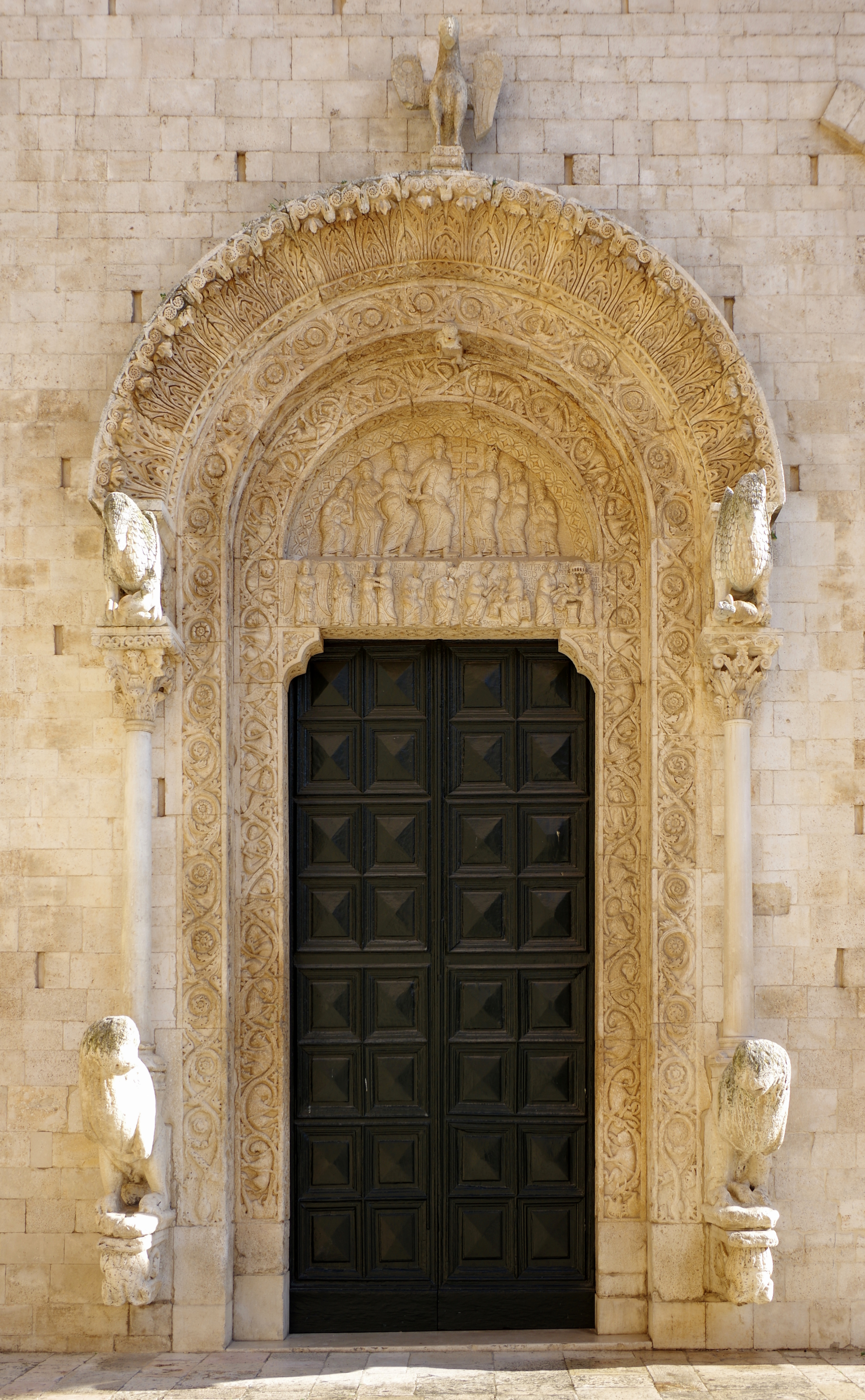 Italy, Bitonto, San Valentino cathedral